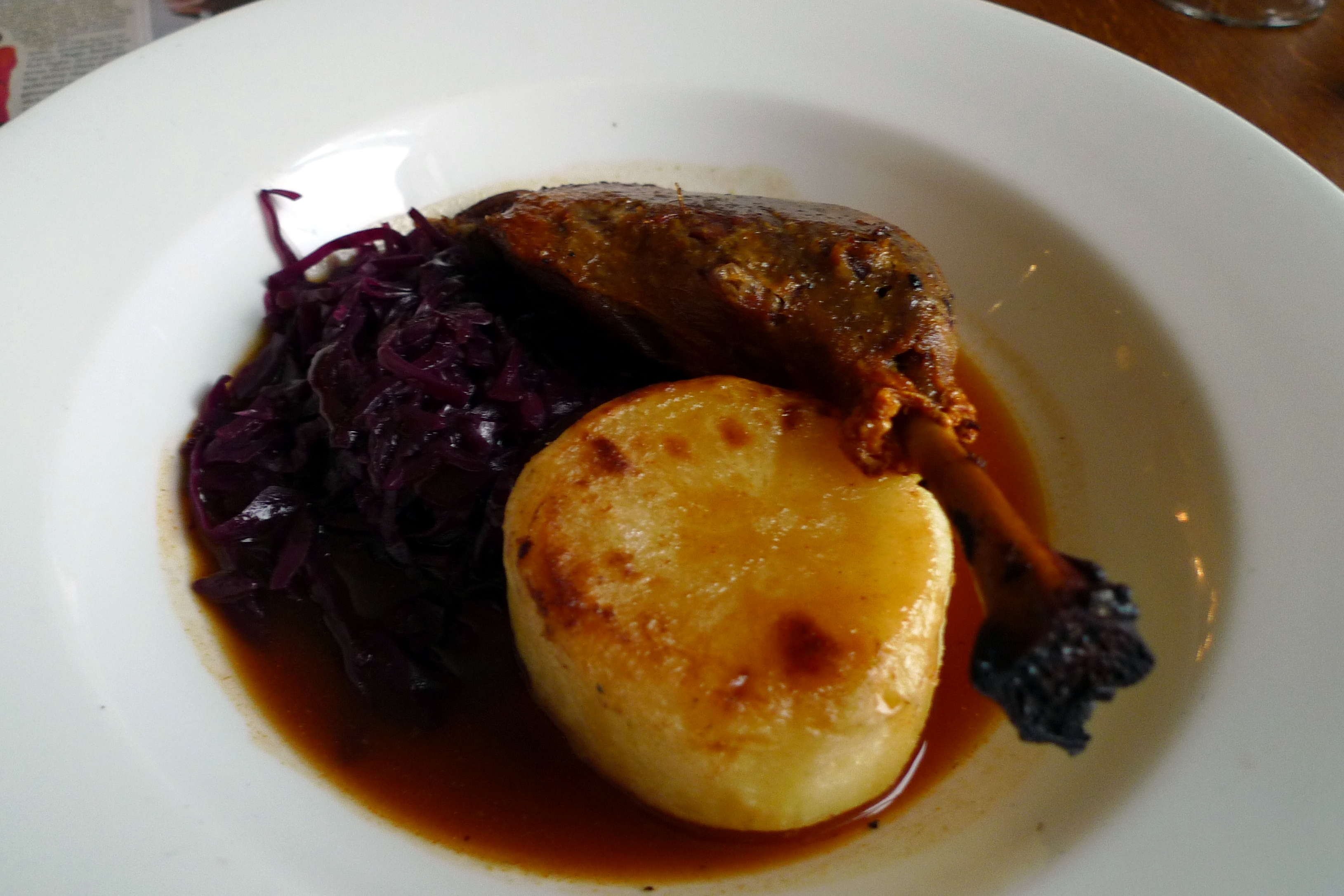 The duck confit, which was nicely-cooked. A decent example. At The Albion, Thornhill Road.